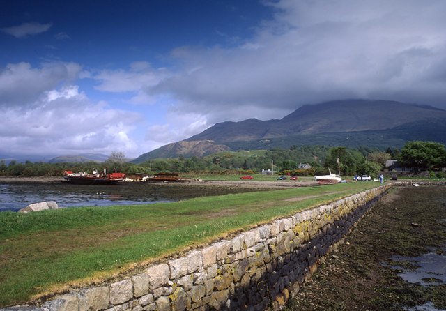 Old pier, Airds Bay near Taynuilt Looking towards Ben Cruachan